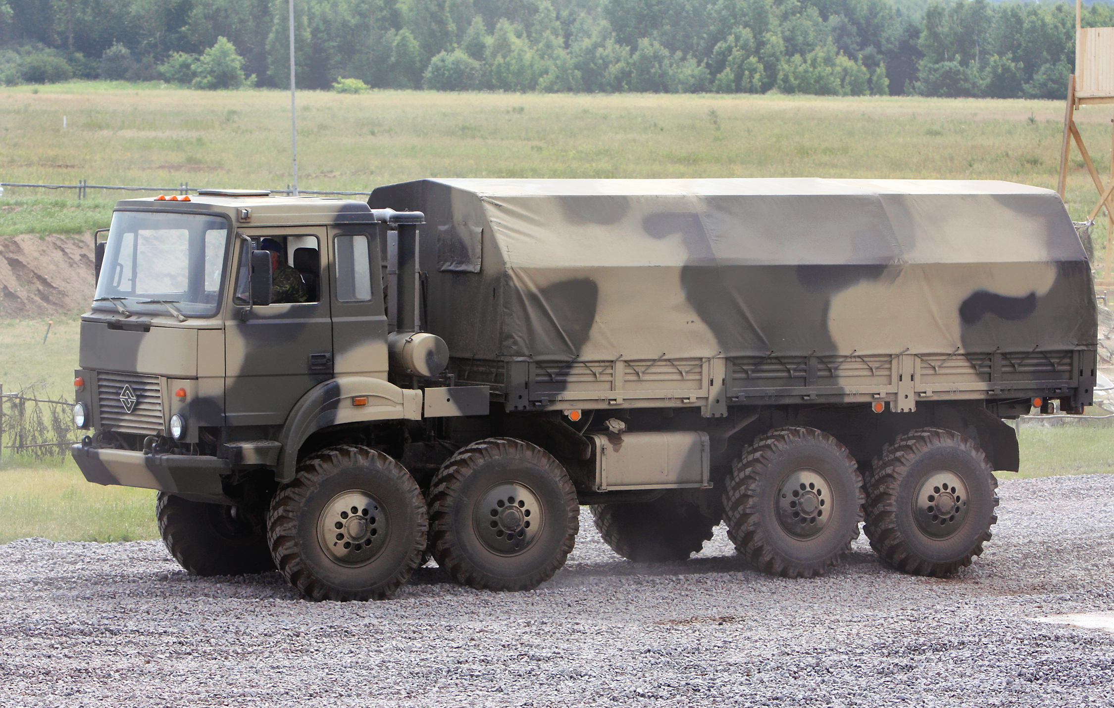 Ural-5323 demonstration during Engineering Technologies 2010 exhibition.